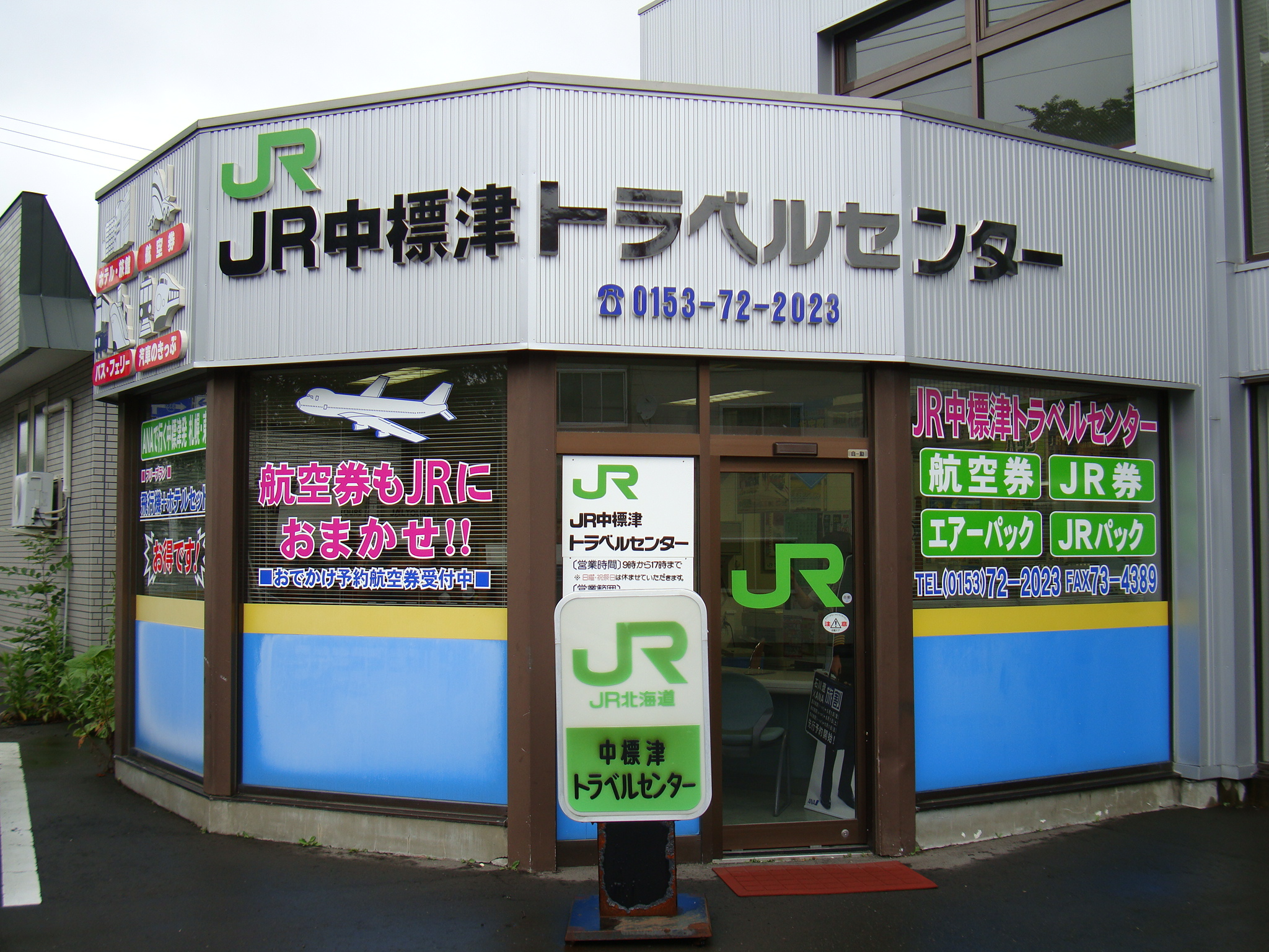 JR Nakashibetsu Travel Center